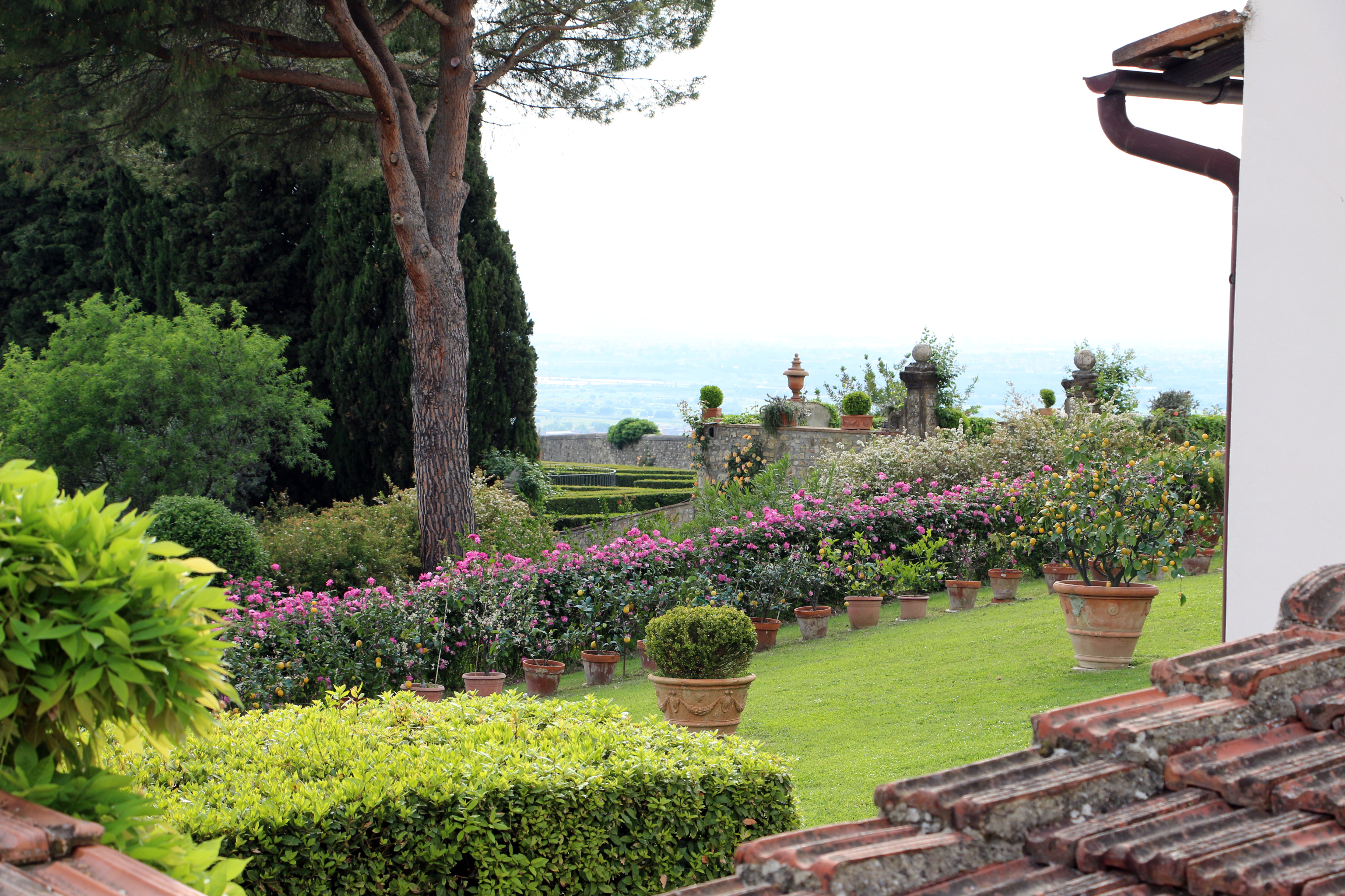 Villa Medicea della Topaia